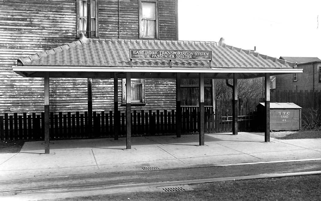 Lipton Loop shelter (East York Transportation System). Now the site of Pape (TTC) subway station in Toronto